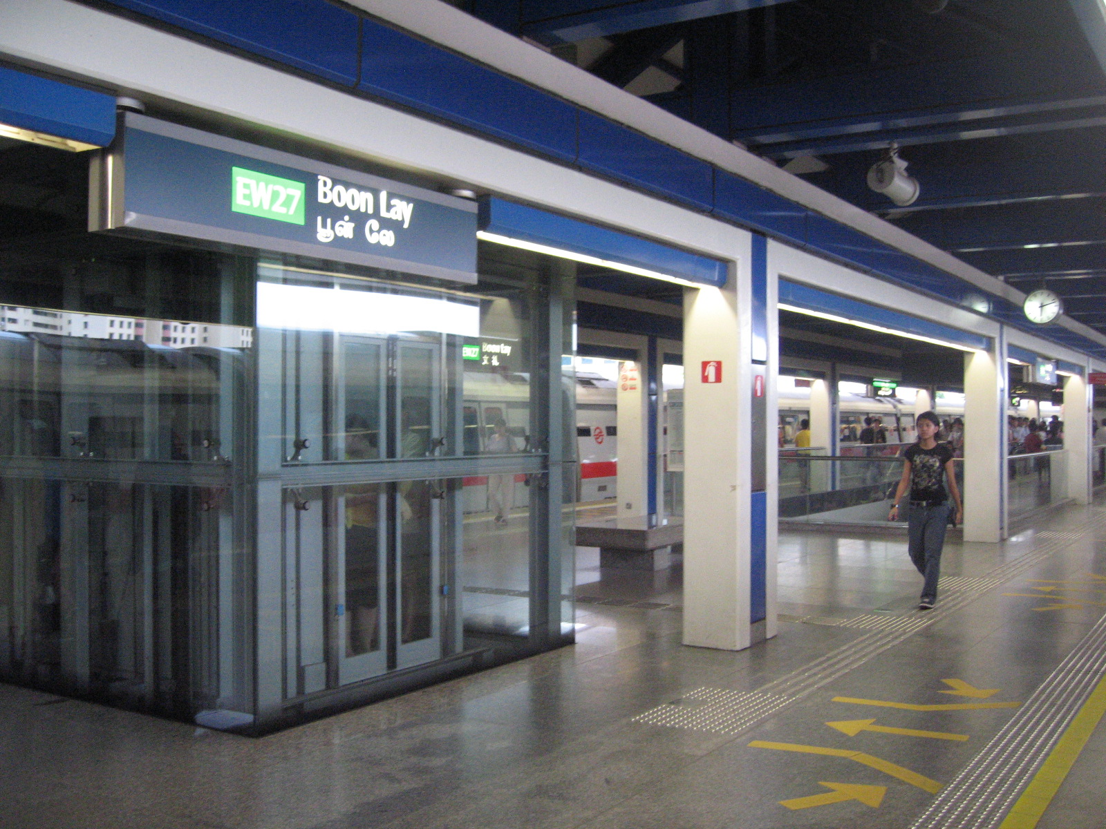 Boon Lay MRT Station, Singapore. Taken by Terence Ong in November 2006.